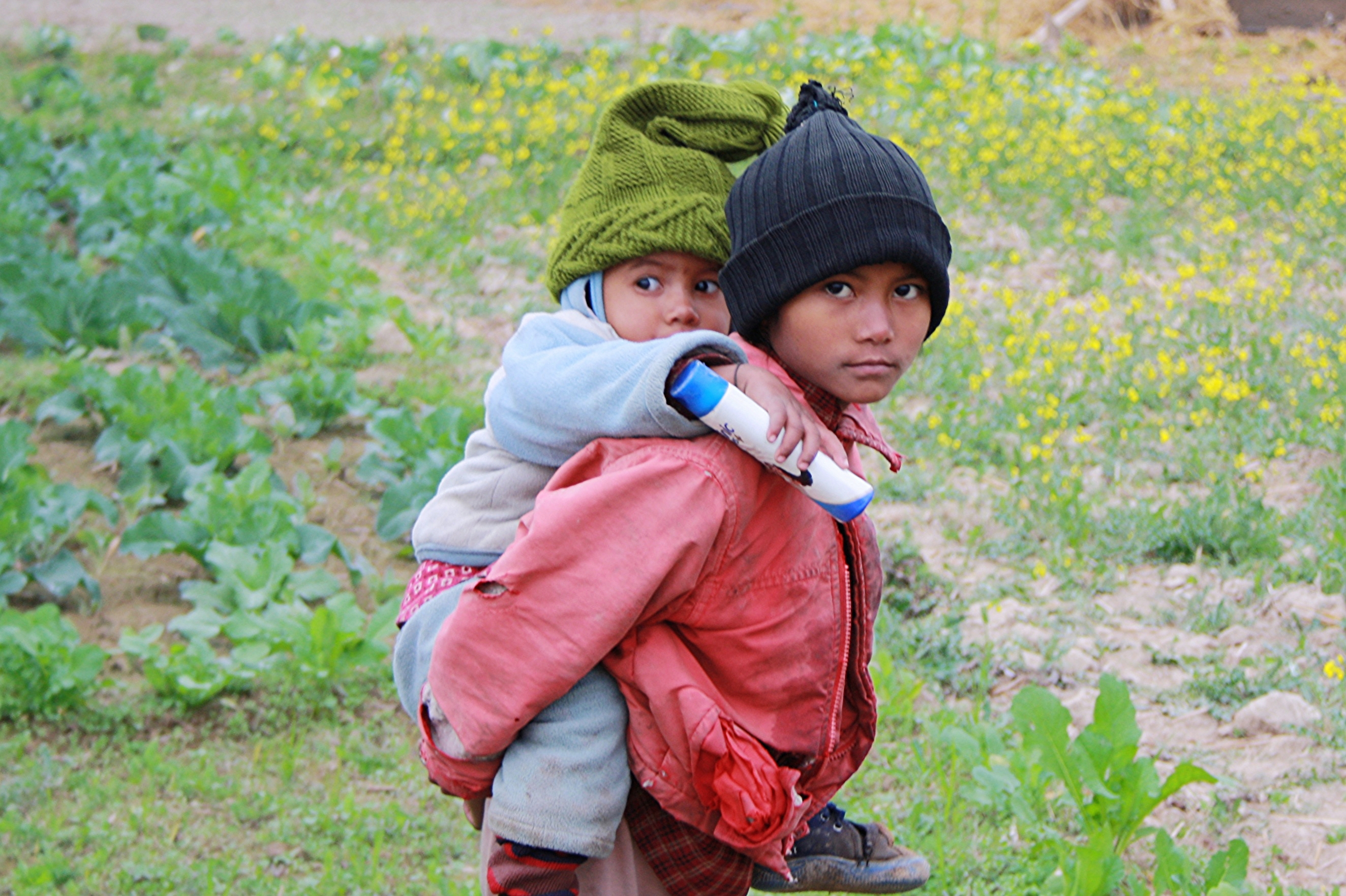 A UK-supported scheme in Nepal is helping make sure children go to school rather than work in fields. Giving rural farmers access to better seeds and advice on how to plant and grow vegetables and fruits means that their crop yields are better - which in turn means that they have produce they can sell. This means that they can build a better income and afford to employ people to help farm their fields, rather than having to get their children to do it. Picture: Robert Stansfield/DFID